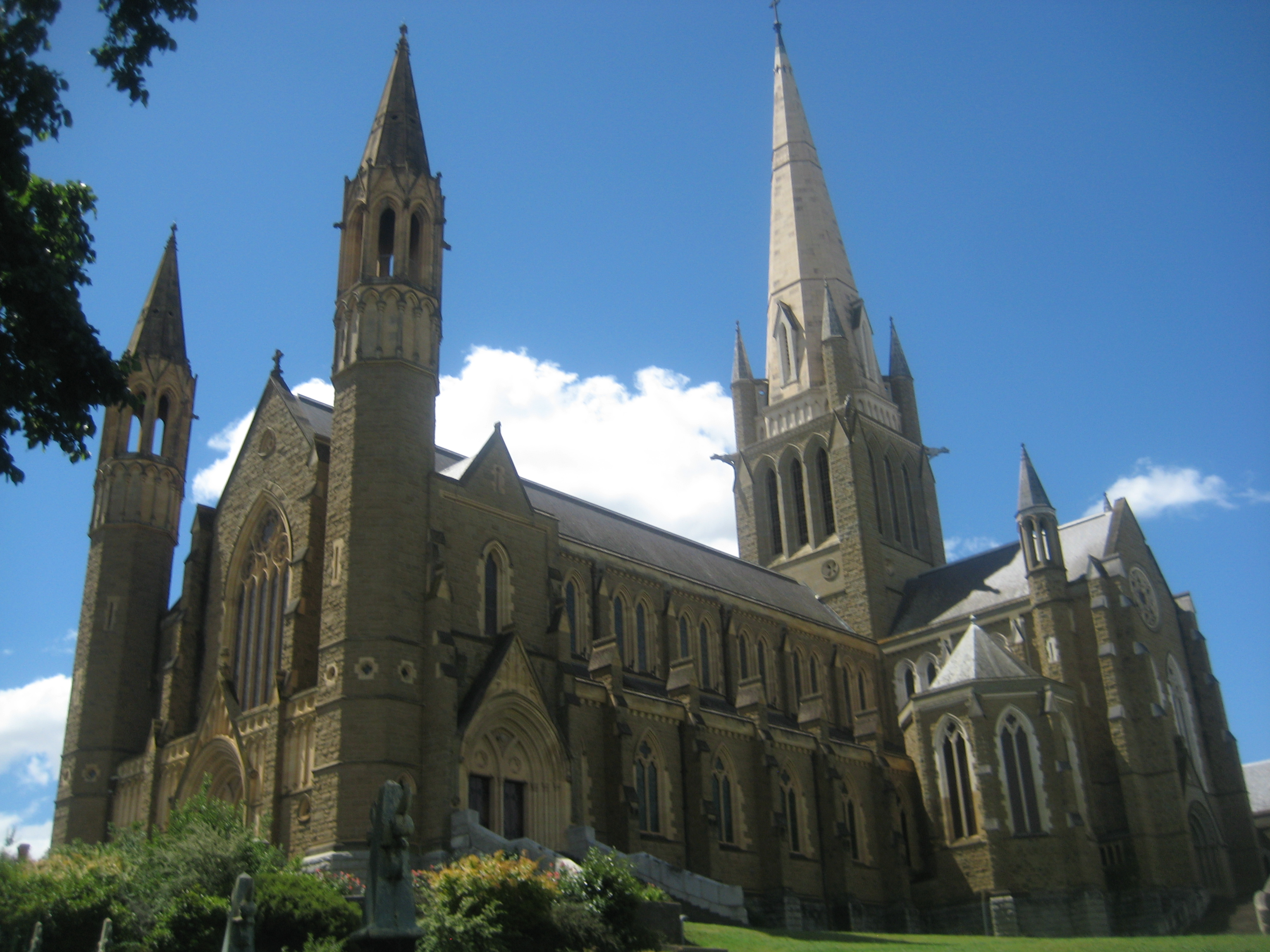 A photo of the exterior of the Sacred Heart Cathedral of Bendigo